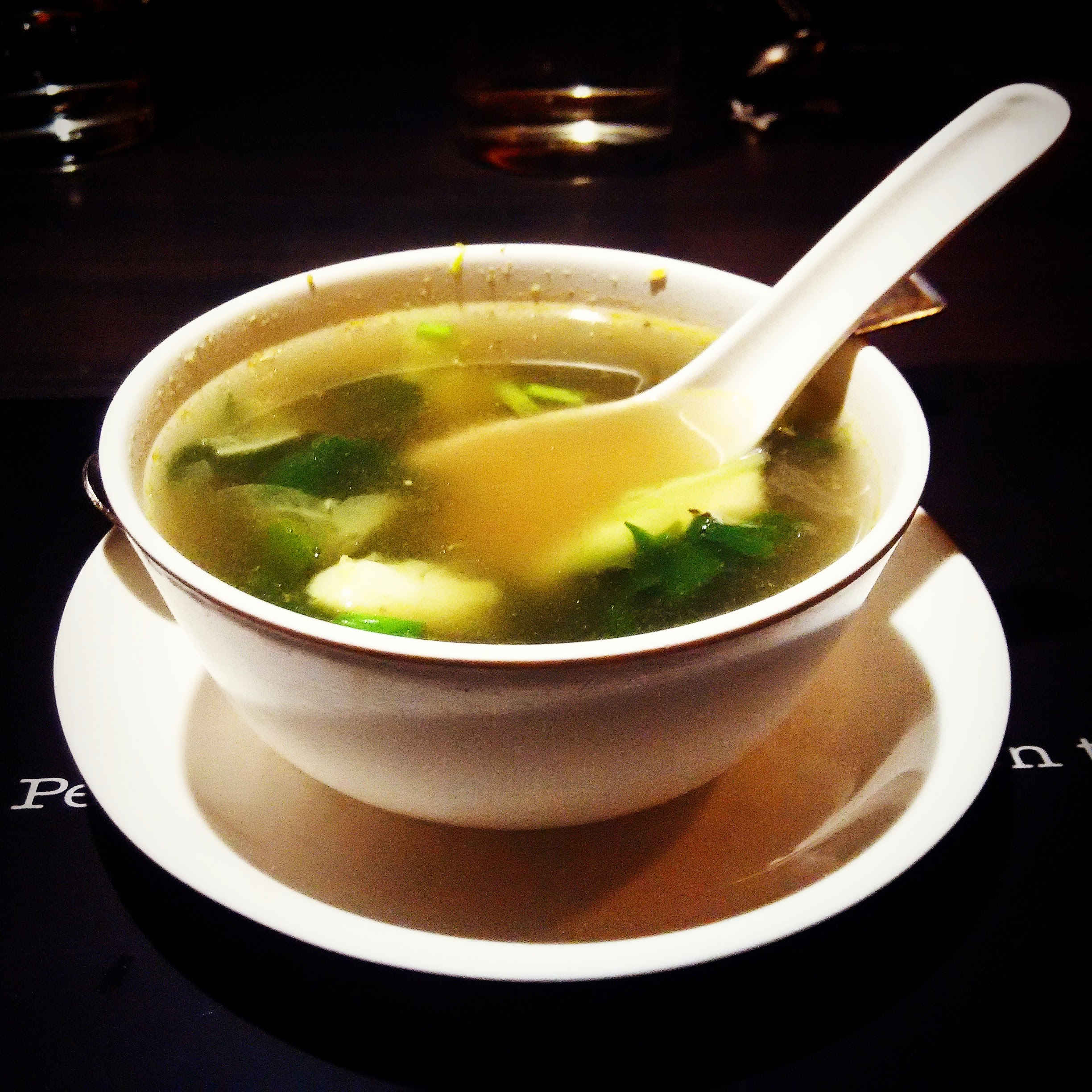 Healthy bowl of Clear soup.